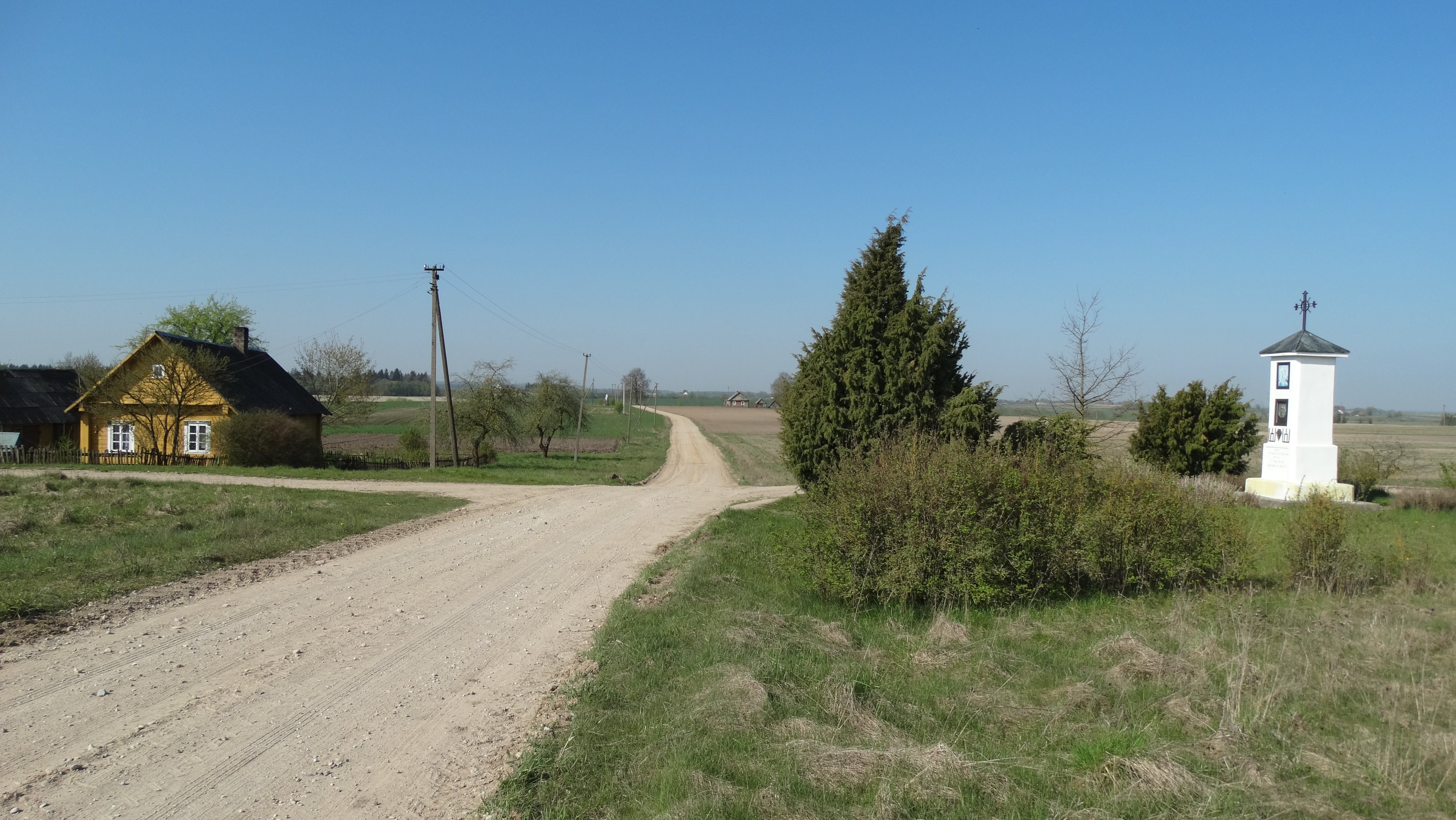 Eiriogala, Kaišiadorys District, Lithuania